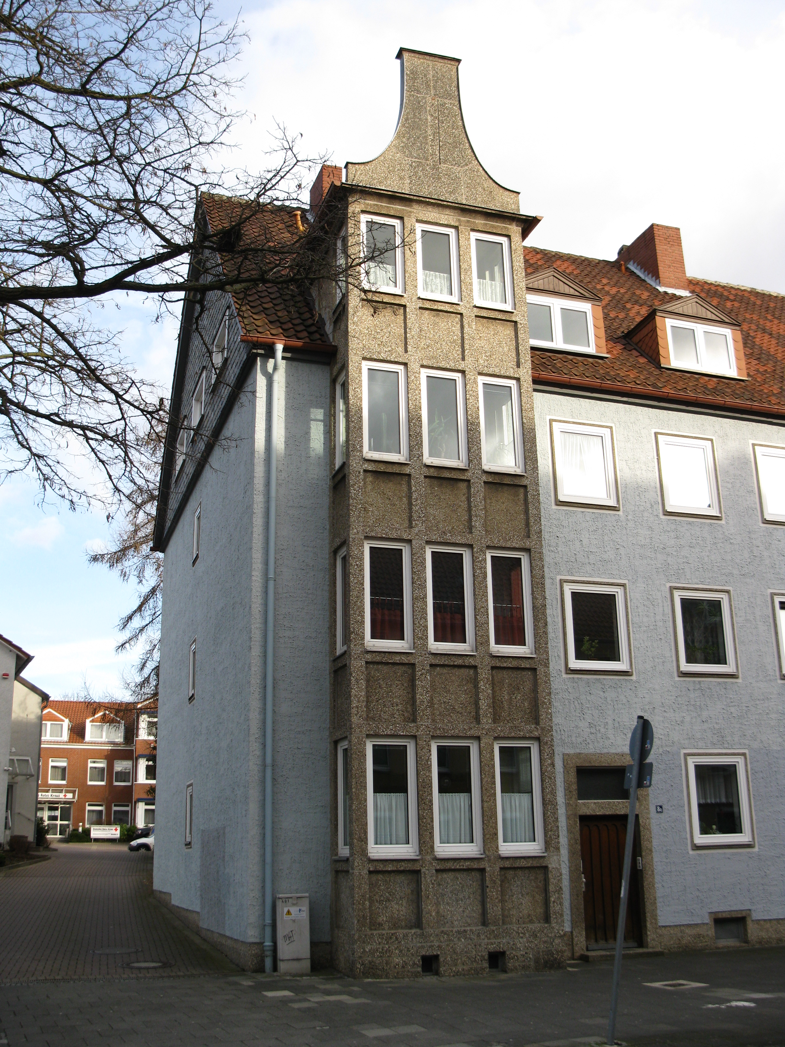 Brühl Street, Hildesheim